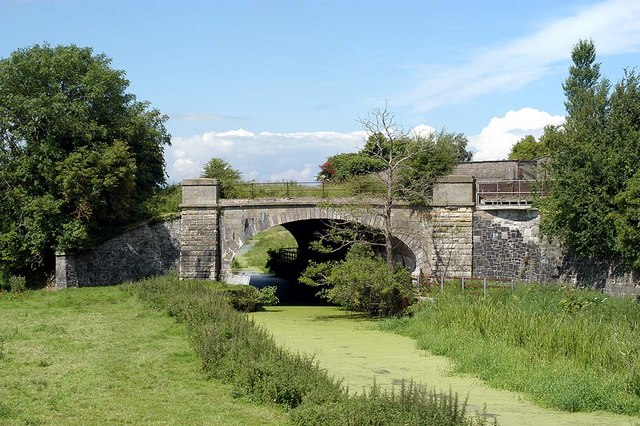 Railway Bridge Old stone railway bridge that carries the Belfast to Dublin railway line over the disused Lagan Canal. Dublin to the left, Belfast to the right. Originally constructed by the Ulster Railway from Belfast on the right to Portadown and Armagh on the left. The Ulster Railway became part of the larger Great Northern Railway (Ireland). The GNR (I) trains would have gone over this bridge enroute to many places such as Londonderry, Strabane, Omagh, Enniskillen, Bundoran, Cavan, Monaghan, Armagh which lasted till the railway closures.